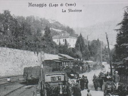 Menaggio railway station